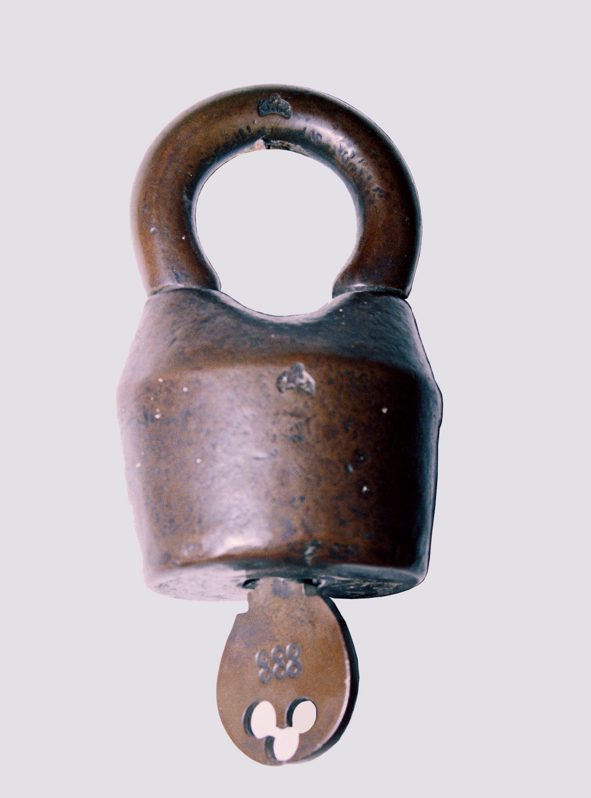 Master Abbas Galandare Leylaabadi Hand made Padlouk, in Tabriz.